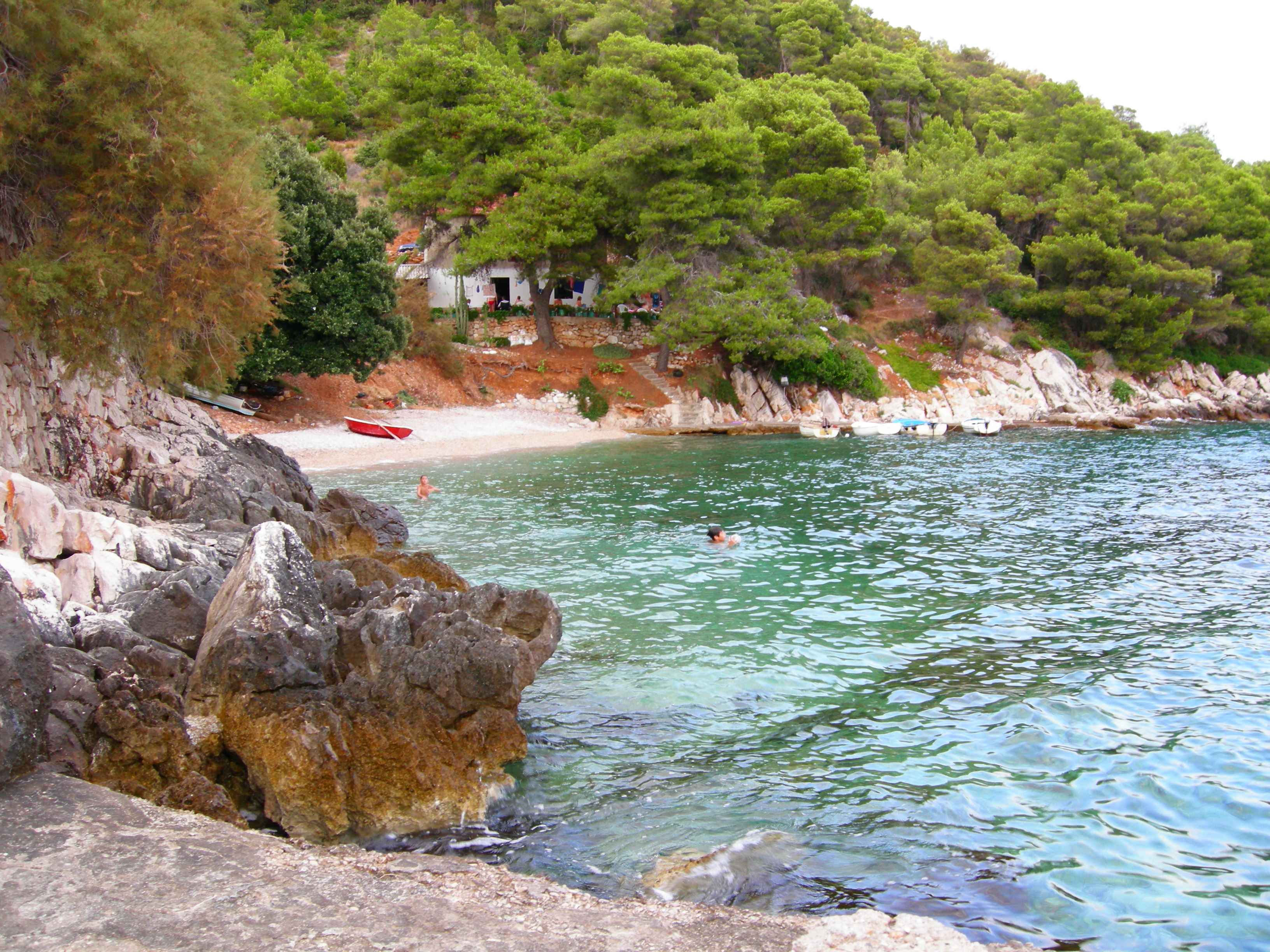 Rapak bay in island of Hvar